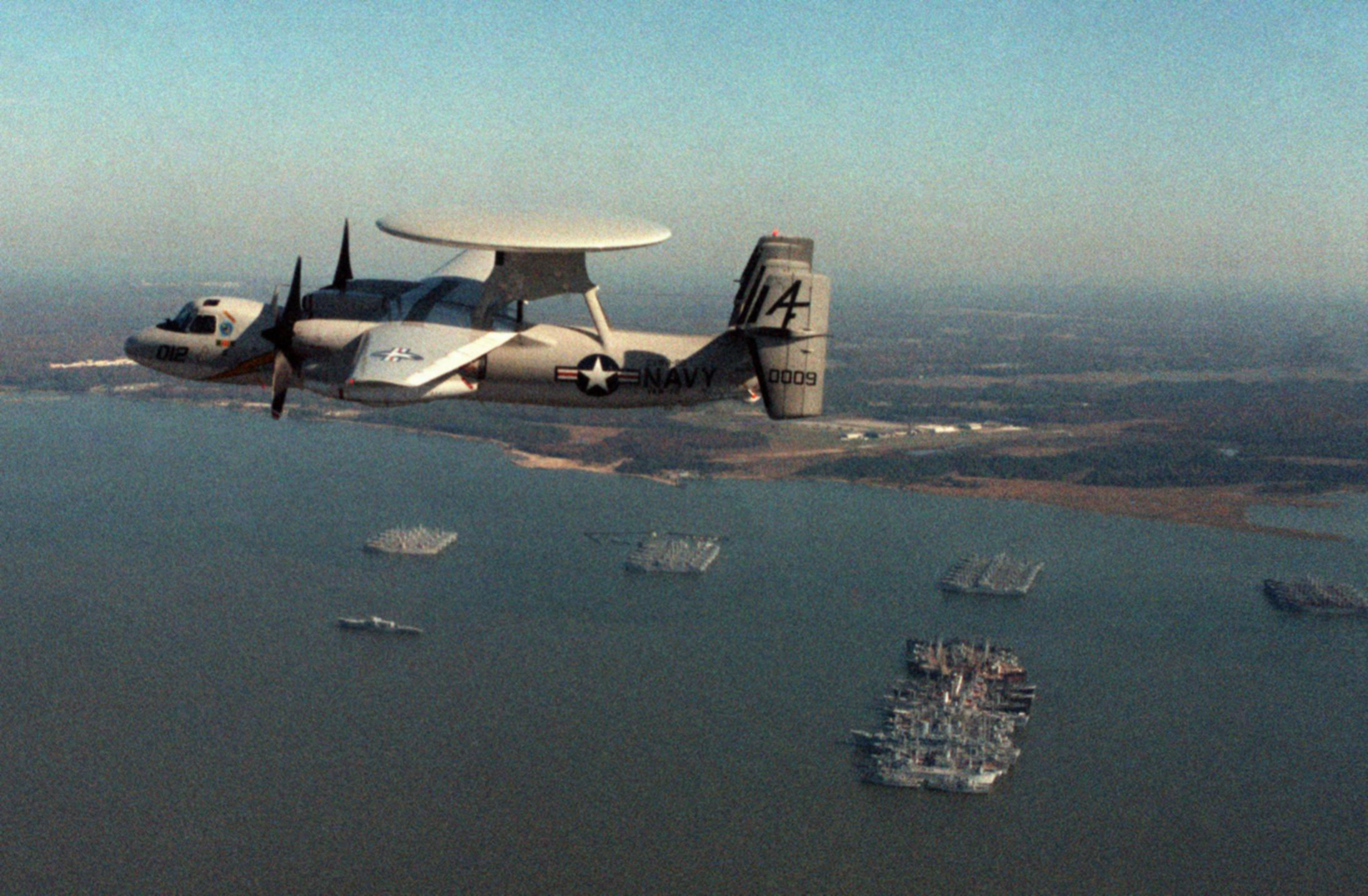 A U.S. Navy Grumman E-2C Hawkeye (BuNo 160009) of Airborne Early Warning Squadron 78 (VAW-78) flies over the James River, Virginia (USA), where National Defense Reserve Fleet (NDRF) ships are at anchor.